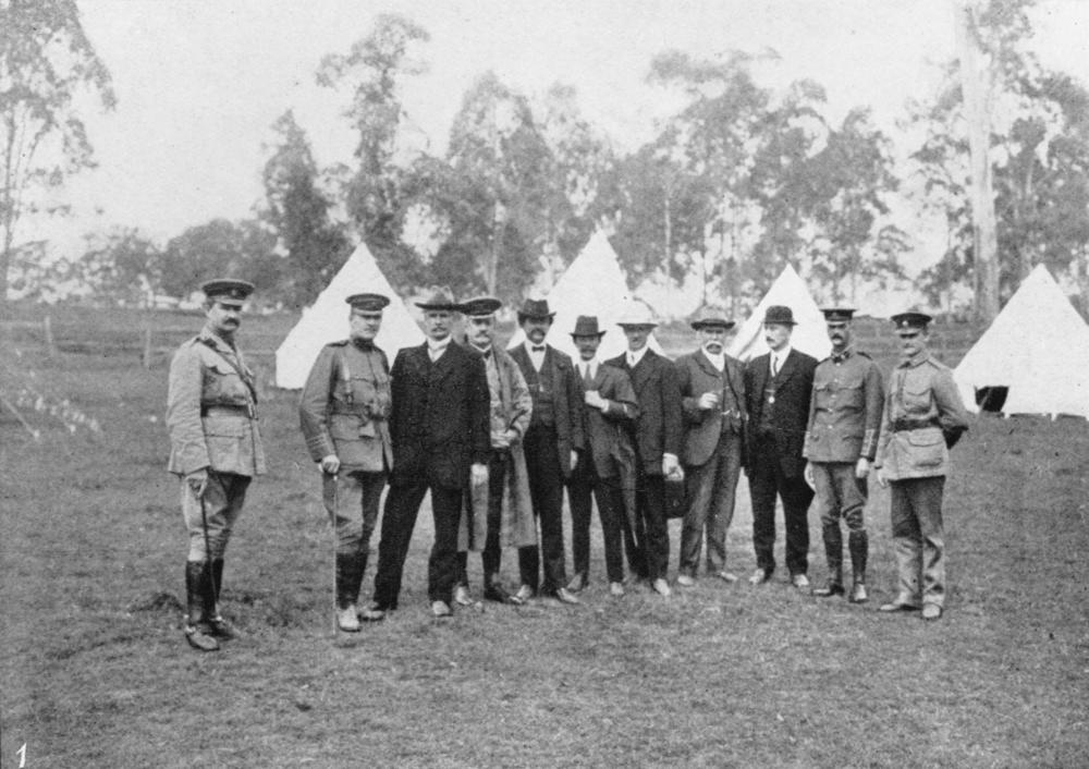 Hon. Andrew Fisher and his party visit the Army camp, 1914. Andrew Fisher is third from left. He was Prime Minister of Australia at the time.